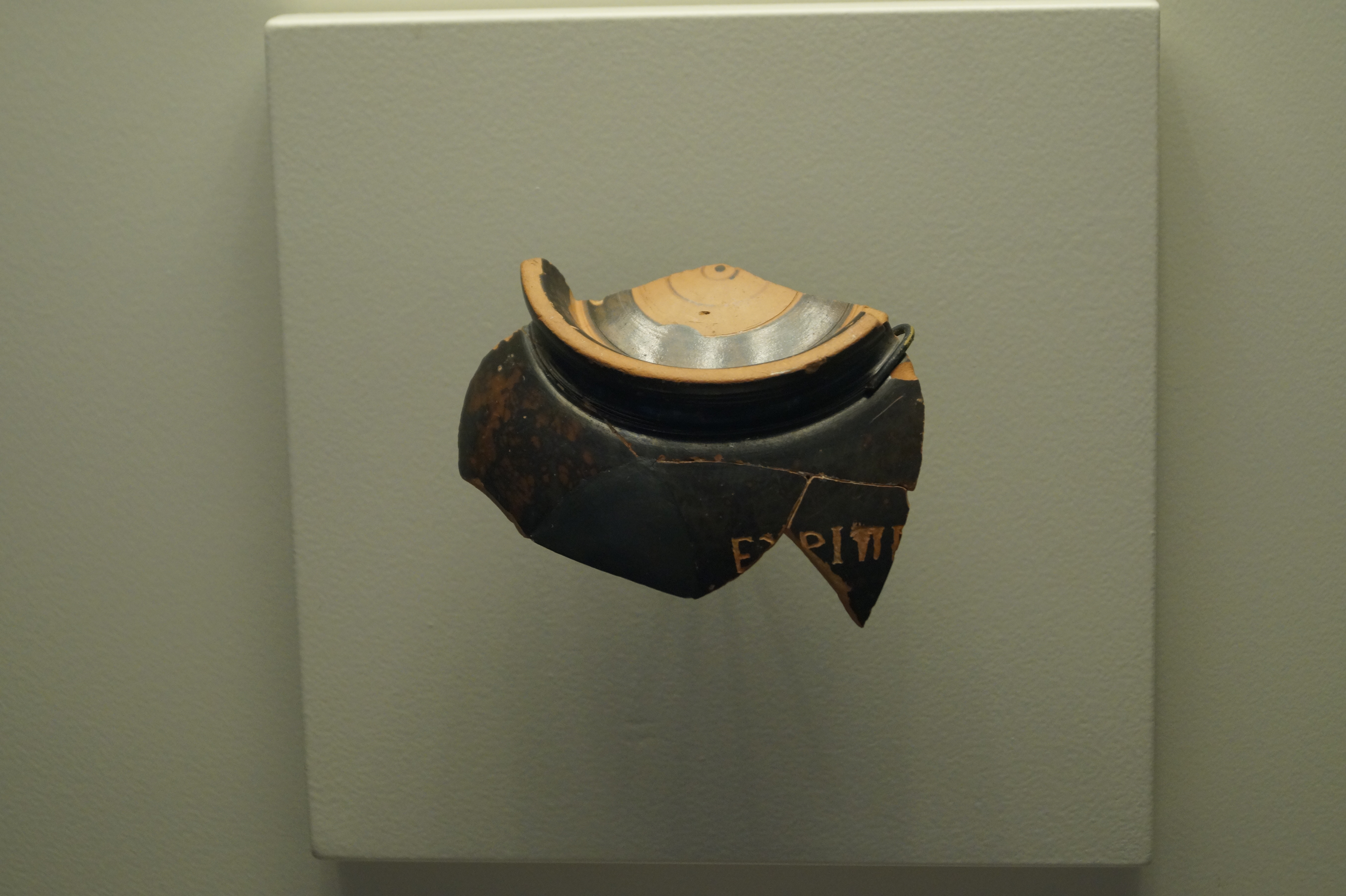 Salamis (City), Salamis, Greece: Archaeological Museum: Black-glazed skyphos with "ΕΥΡΙΠΠ" for "Euripides" incised, from the Cave of Euripides. (430-420 century BC)